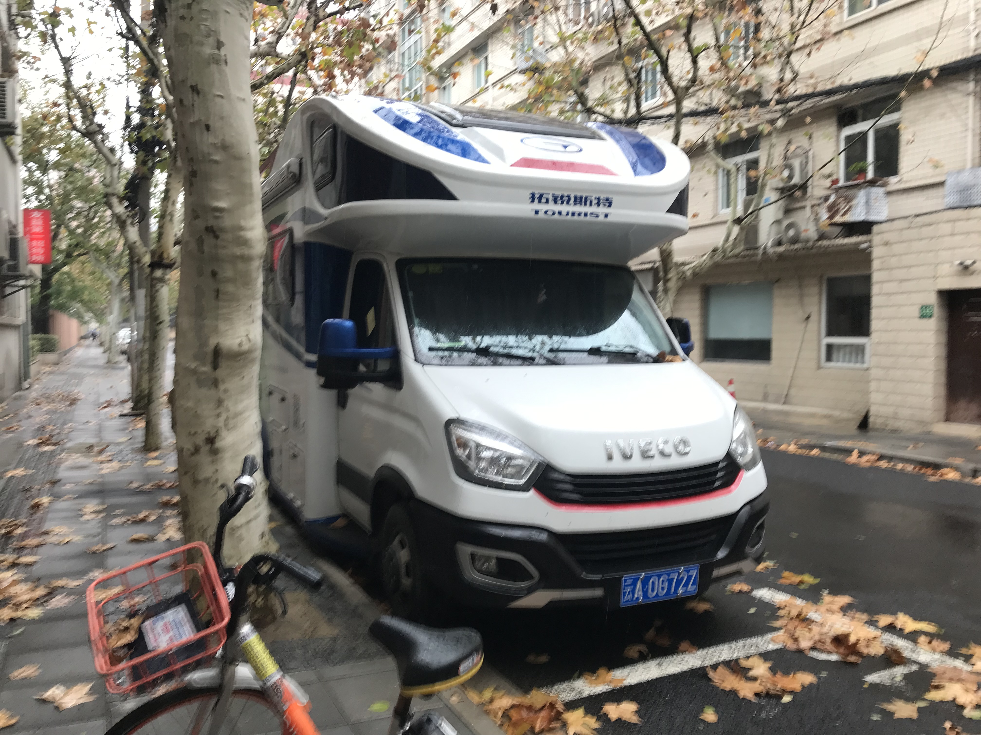 Iveco Daily Ousheng Tourist RV in Shanghai.